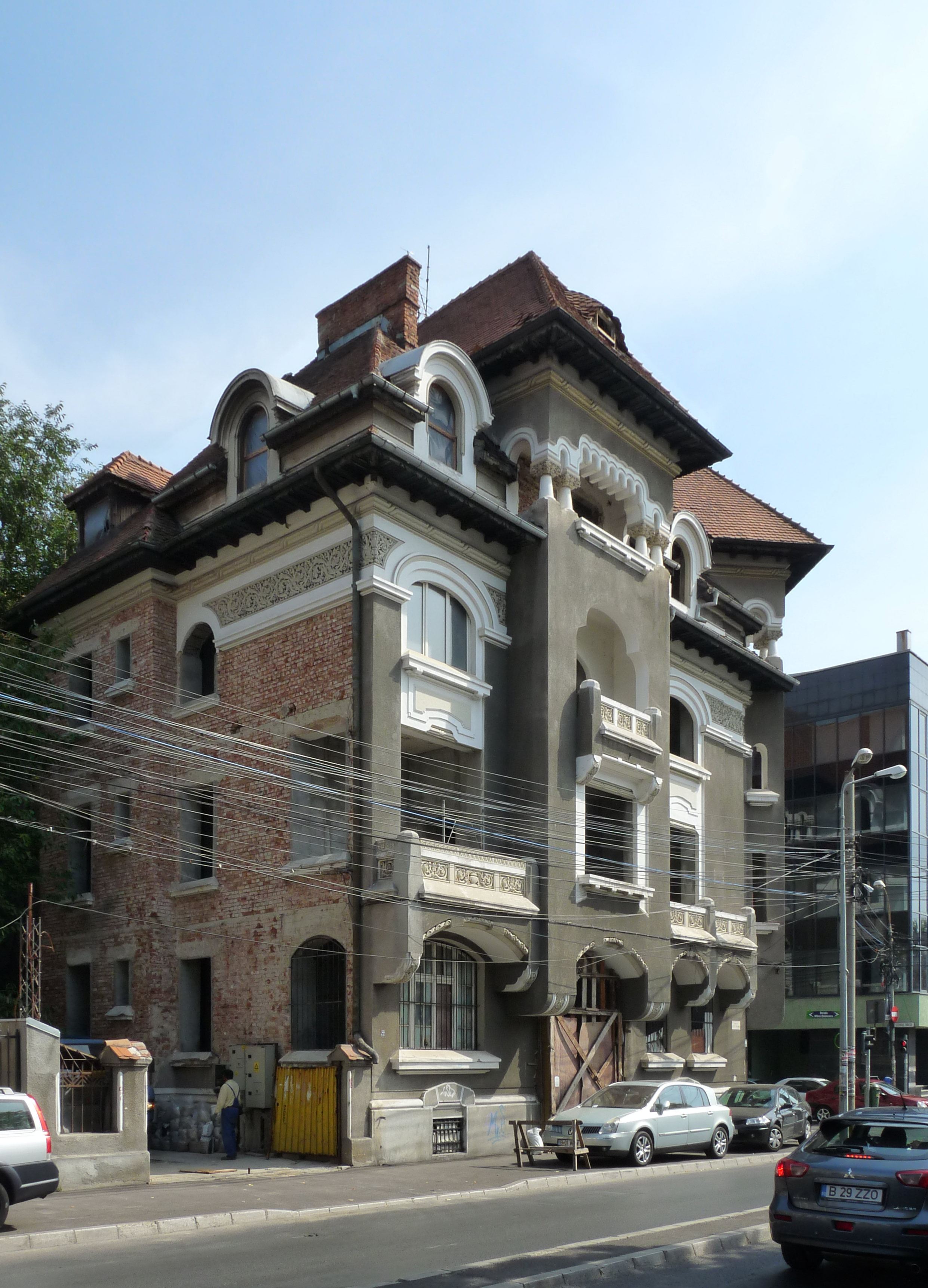 Historic building in Bucharest, Romania, at Polona street 22.